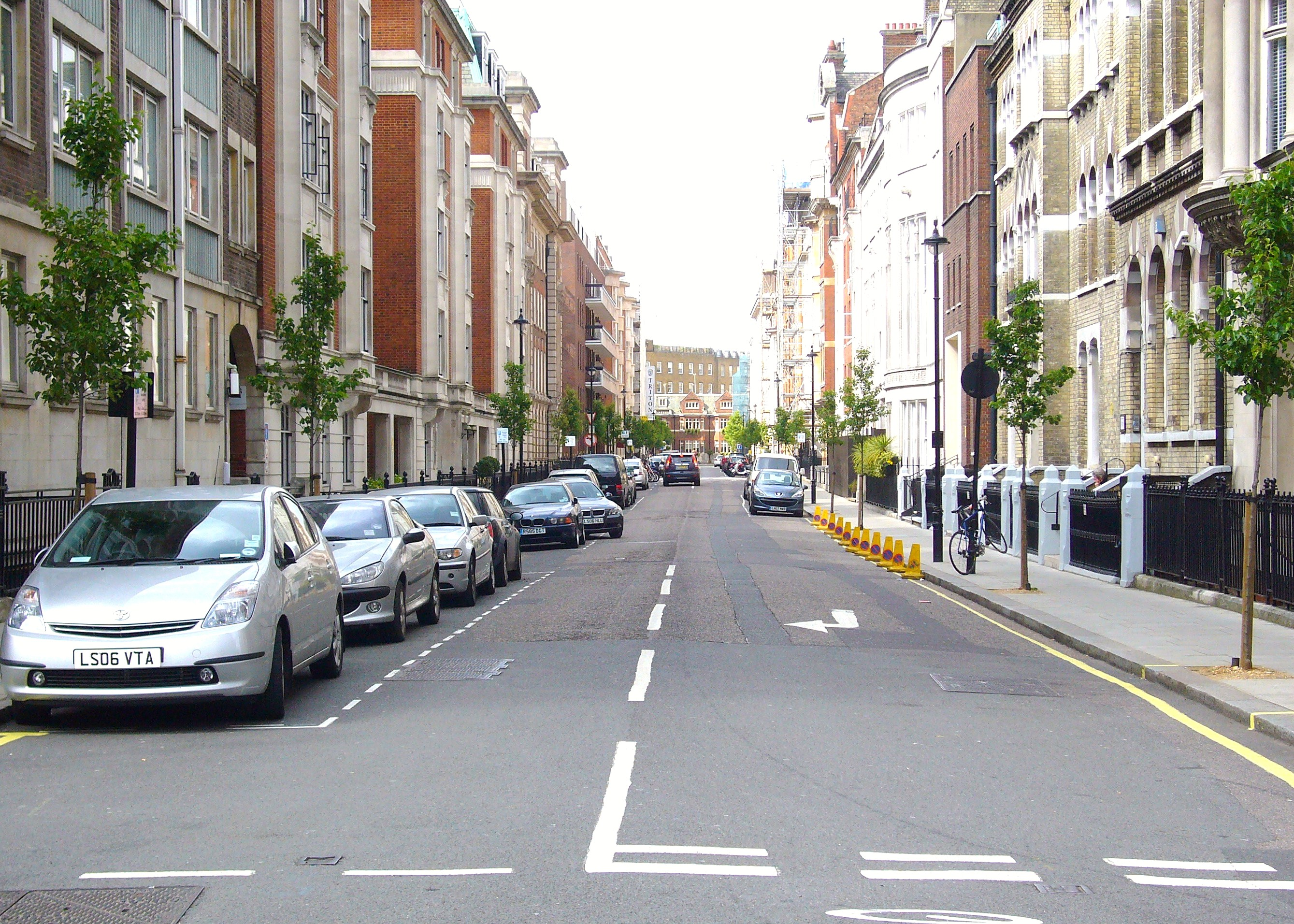 View of Hallam Street in Marylebone now with 40 Pear trees planted